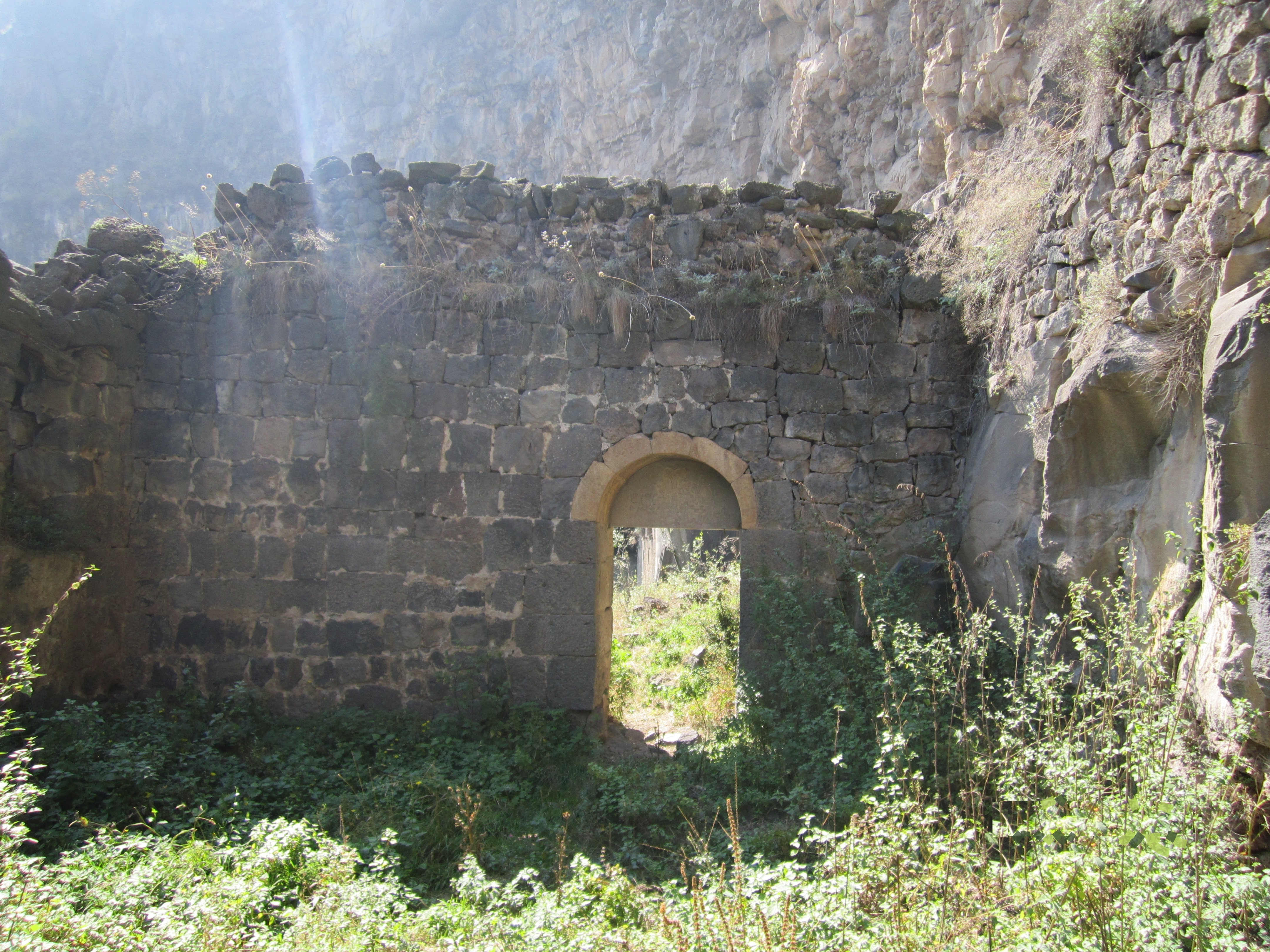 Photo by Arthur Papoyan 112/10